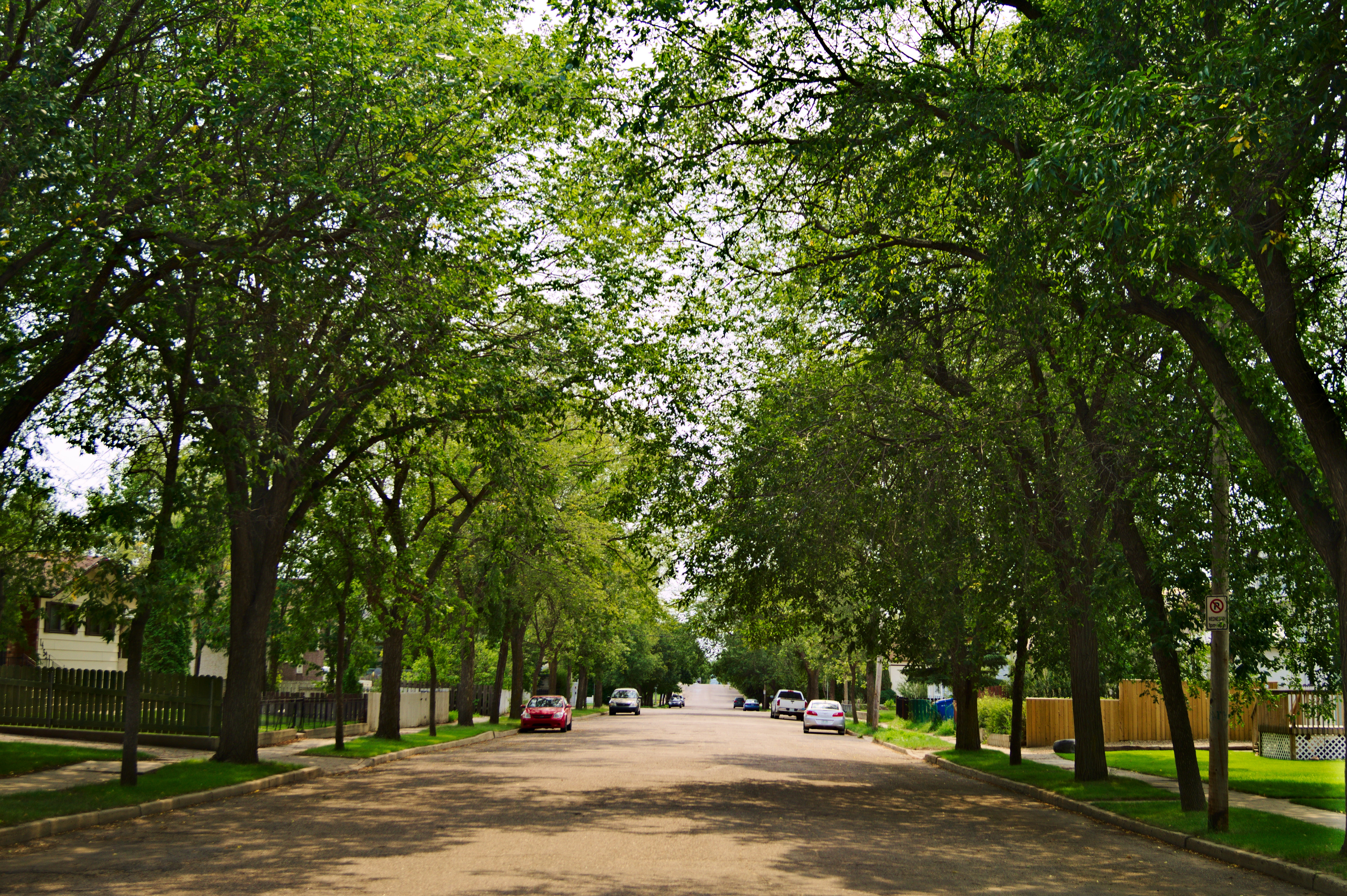 Residential Street in North Battleford, Saskatchewan in late summer.